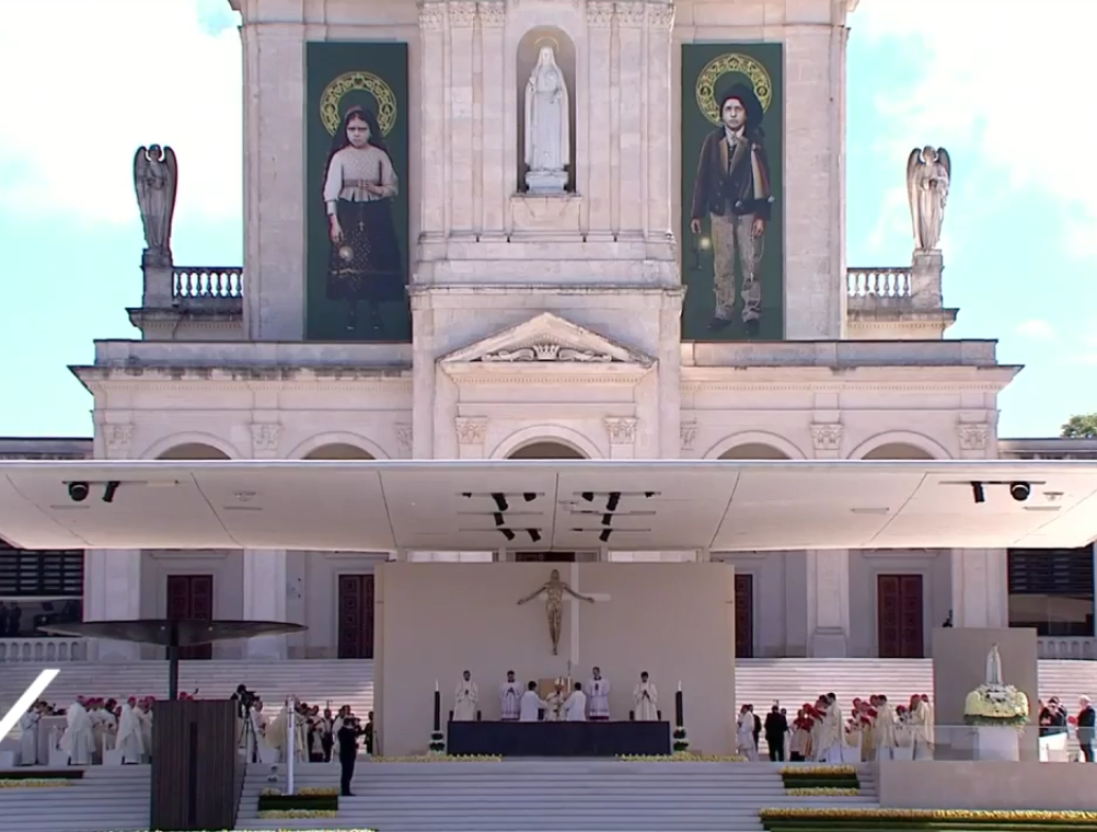 Canonization of St. Francisco Marto and St. Jacinta Marto, by Pope Francis, on the Basilica of Our Lady of the Rosary, in Fátima, Portugal (13 May, 2017).